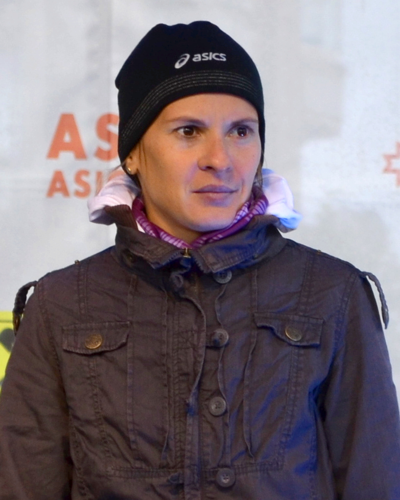 Daniela Cârlan finishes 5th at the Bucharest Marathon 2011